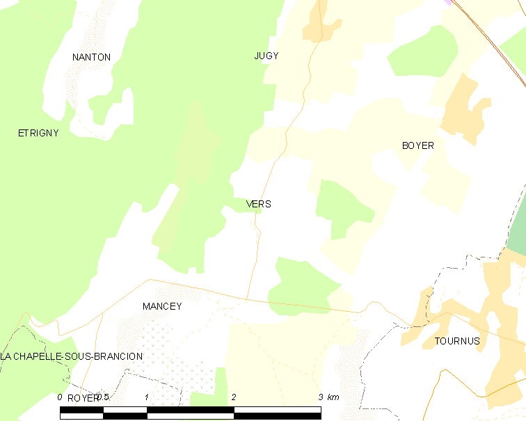 Map of French municipality